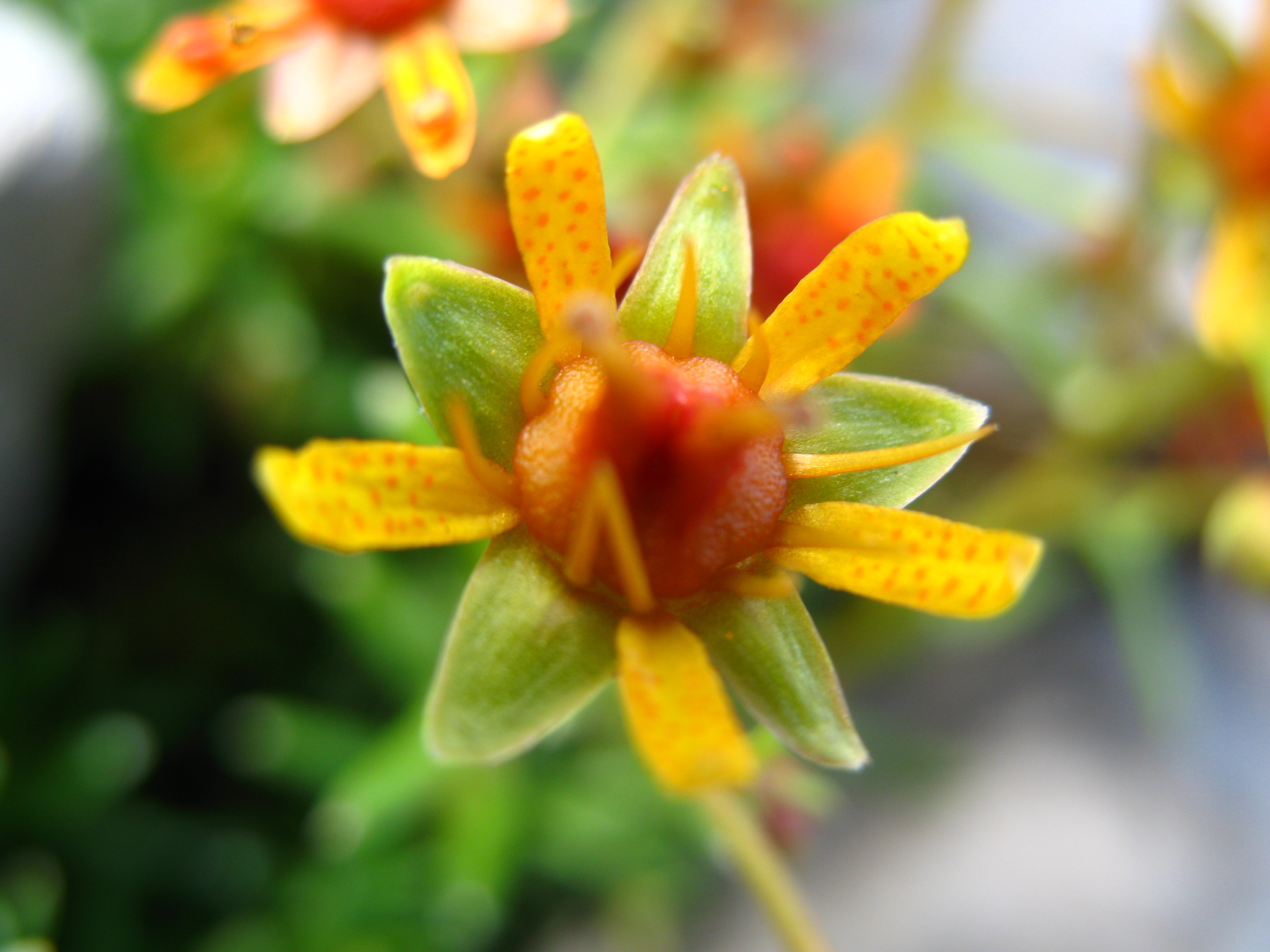 Yellow Mountain Saxifrage (Saxifraga aizoides) on Oberberghorn, Schynige Platte, Switzerland